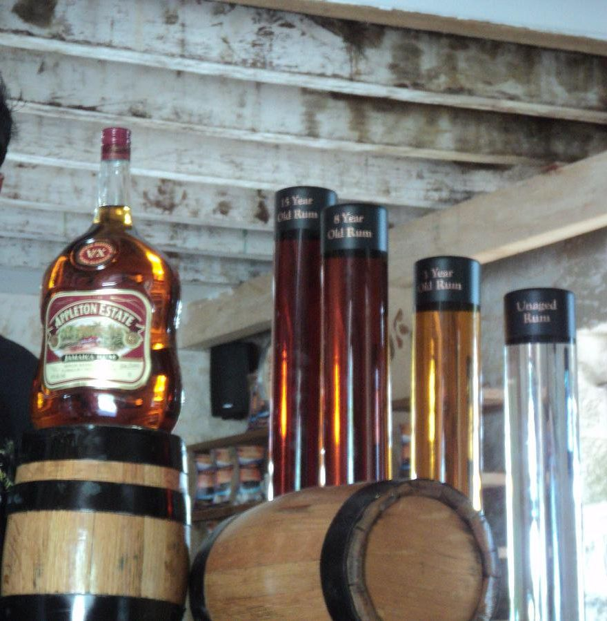 Appleton Estate Rums